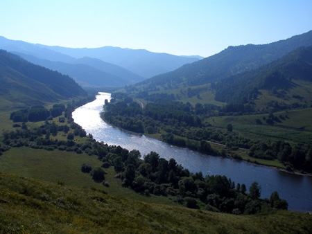 Charish river in Altai krai, Russia